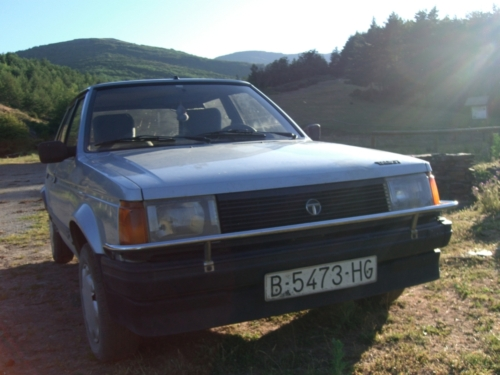 Talbot Horizon GLD